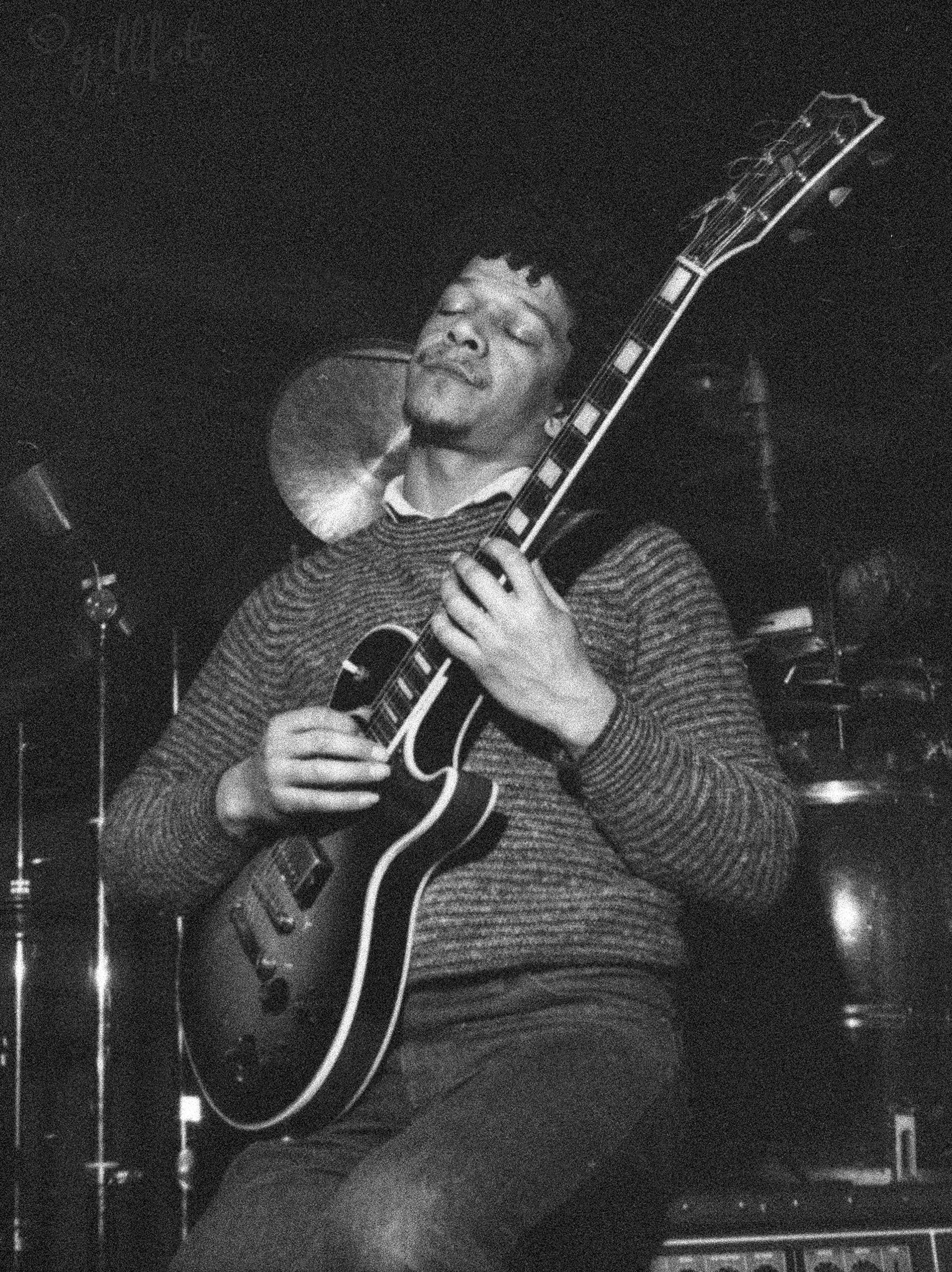 Russell Herman on guitar, at the Elephant & Castle, London 1983